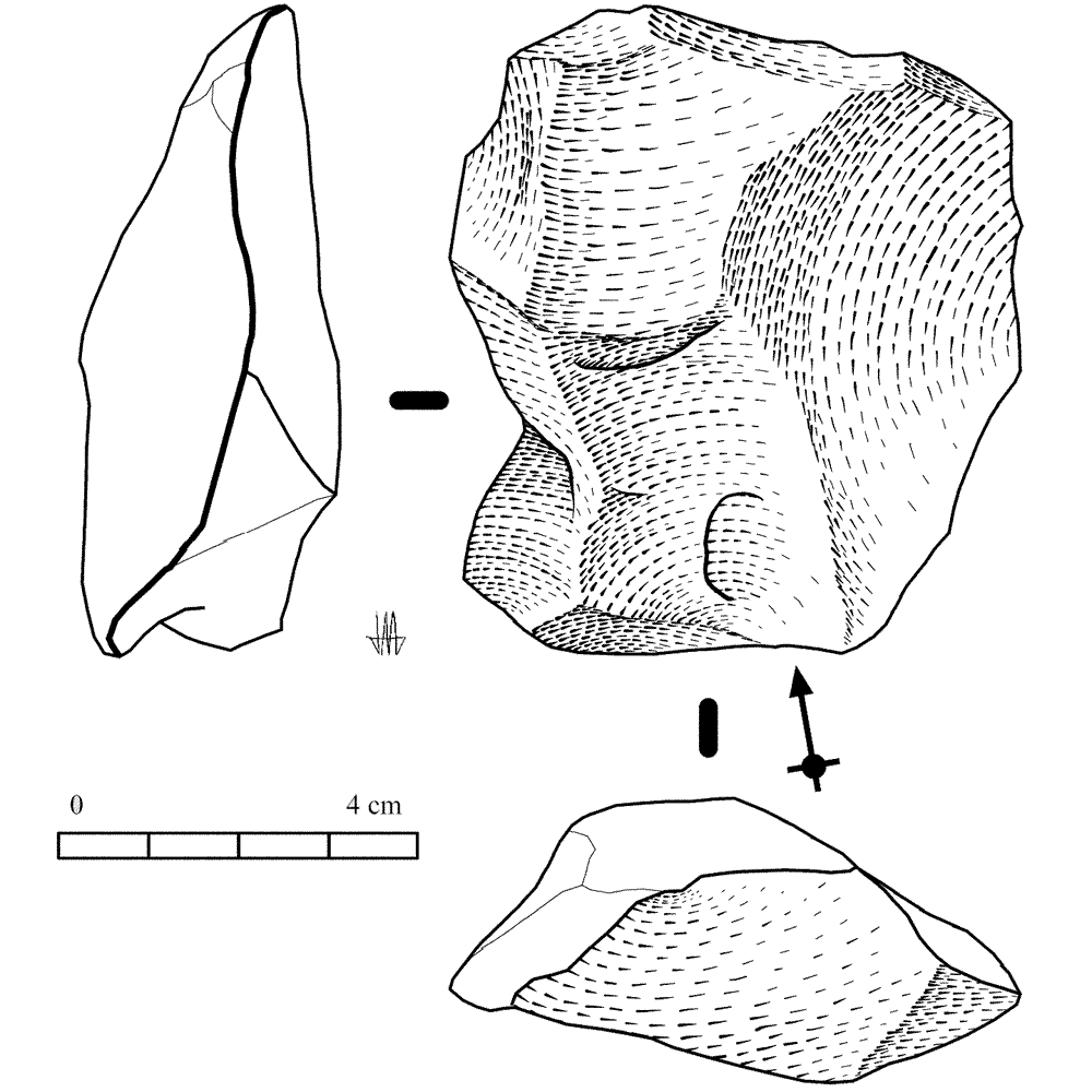 Levallois flake obtained by the recurrent Levallois method (centripetal)